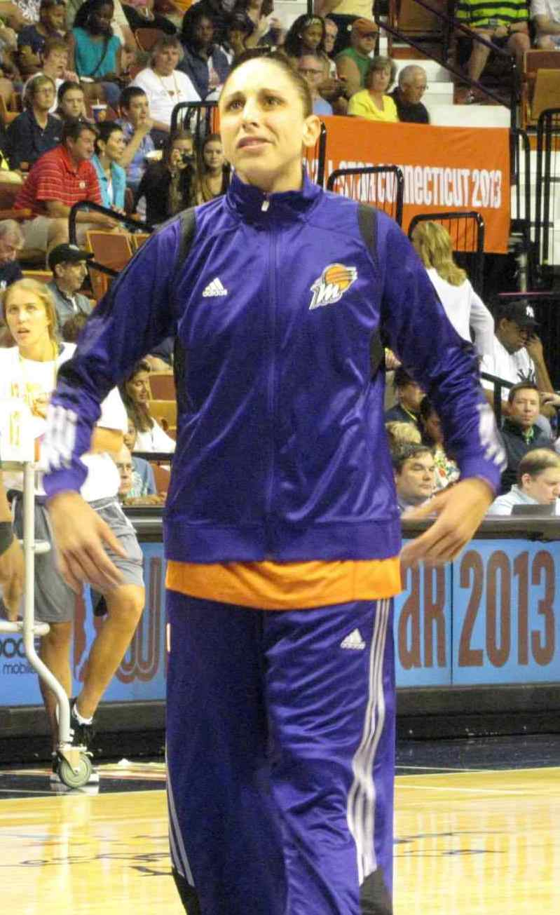 Diana Taurasi at 2013 WNBA All-Star game at Mohegan Sun 27 July 2013